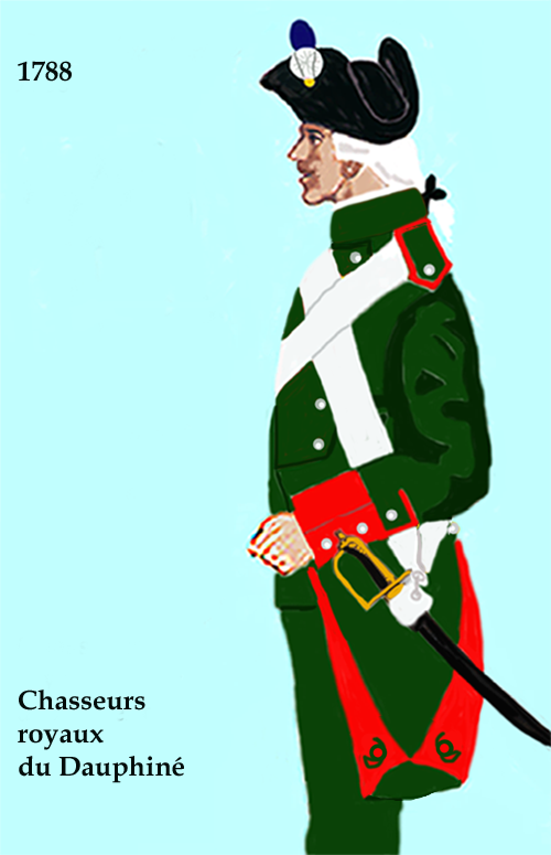 Uniforms of the french rifles of foot in 1788